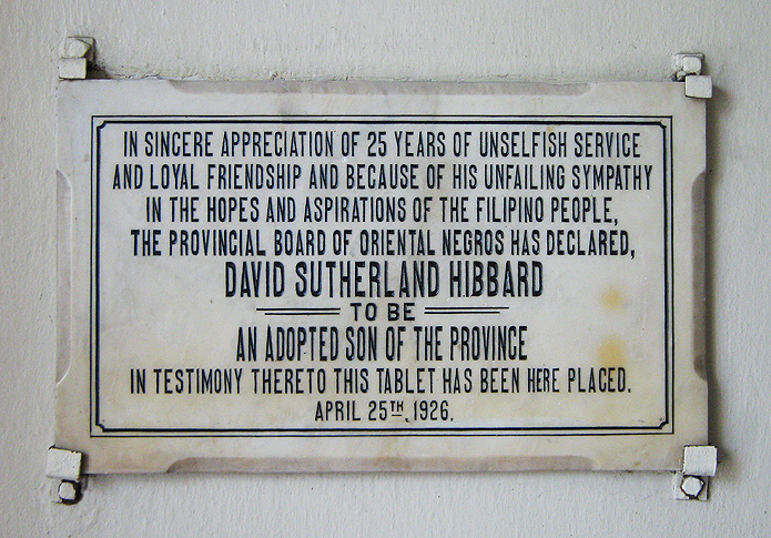 David Hibbard Stone Tablet at the lobby of Hibbard Hall, Silliman University Campus